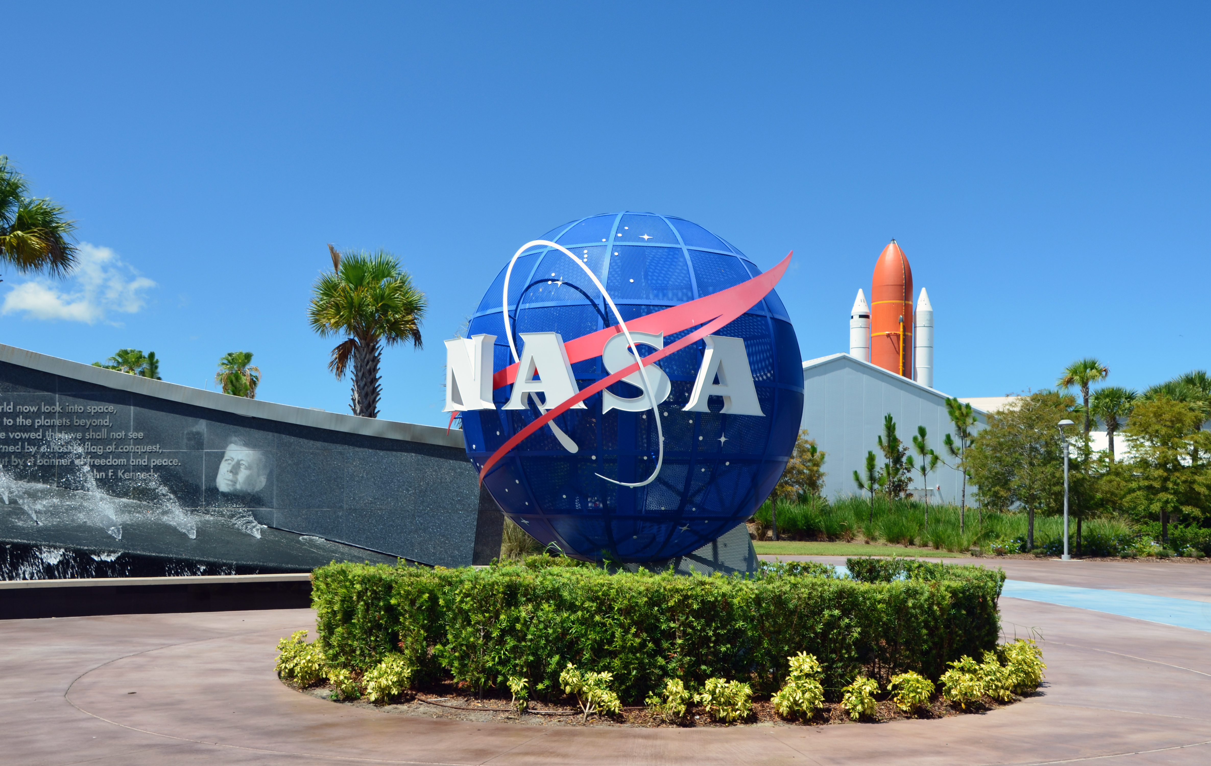 Entrance of the Kennedy Space Center Visitor Complex in Merritt Island, Florida (USA).